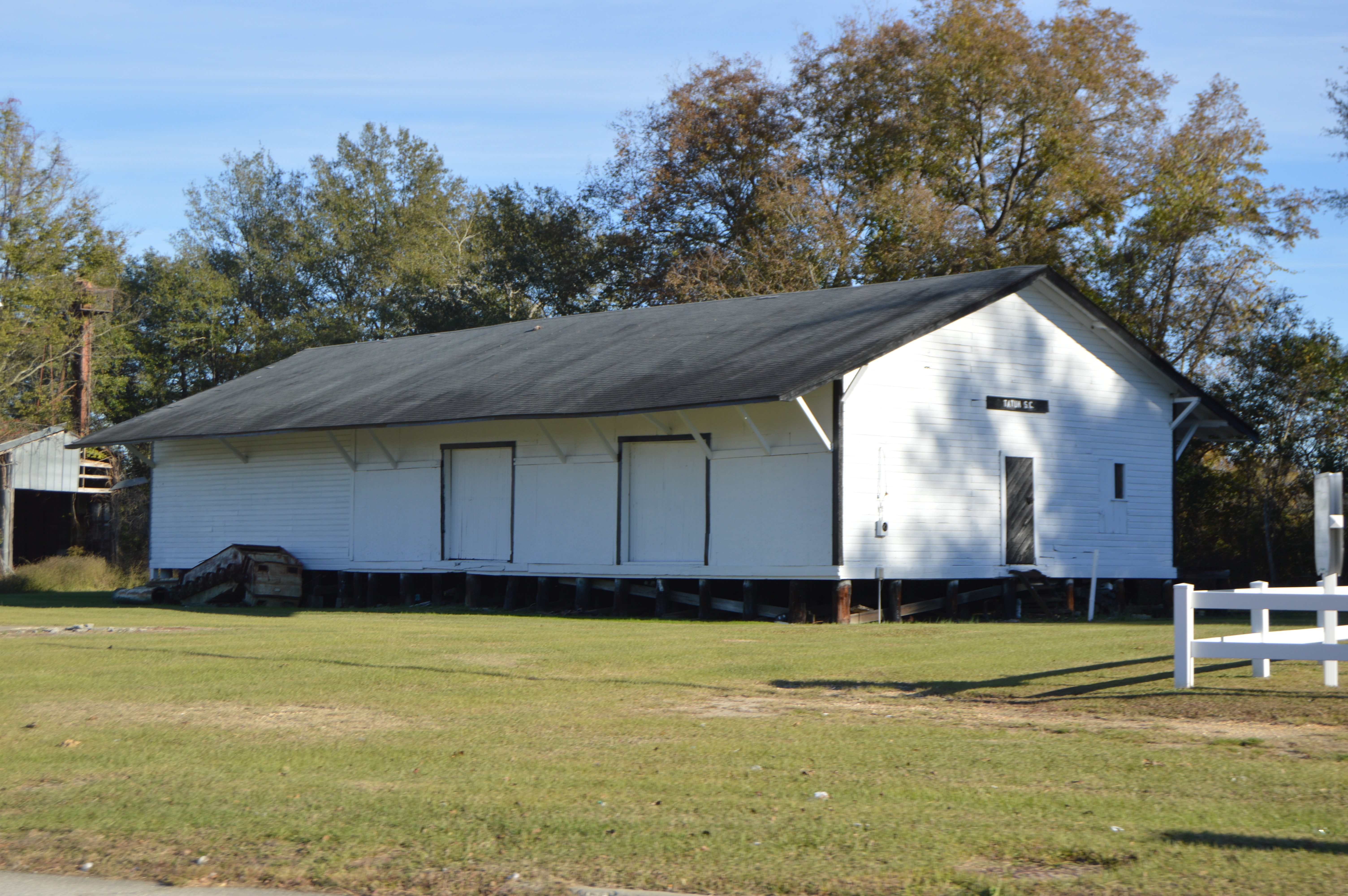 Northern side and western end of the former train station in Tatum, South Carolina, United States, seen from Main Street (U.S. Route 15).